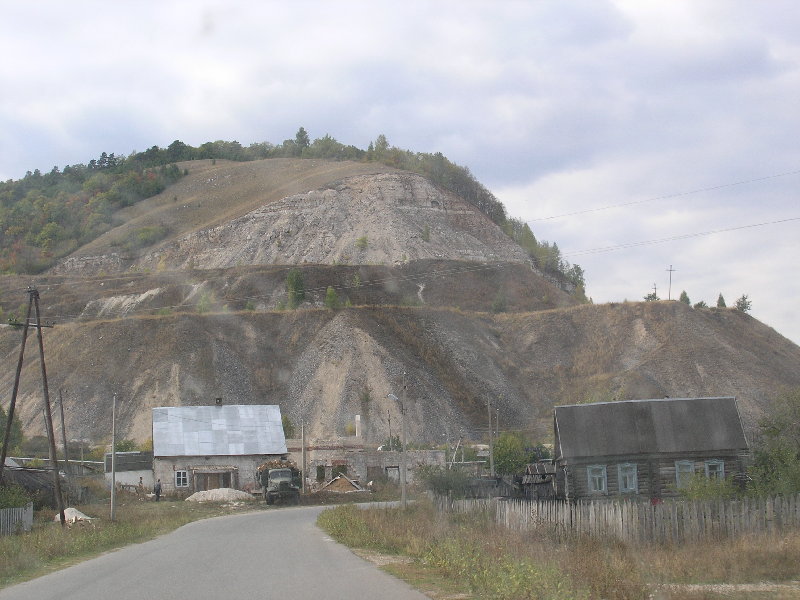 Zhiguli near Shiryaevo, Samara Oblast, Russia